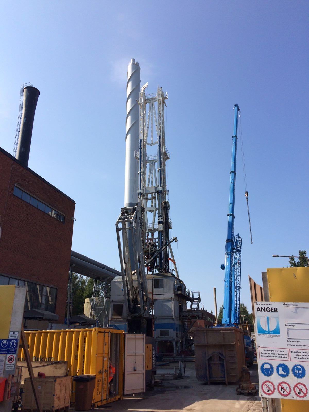 The drilling rig of Otaniemi deep boreholes in Espoo in the August of 2016. The holes are intended for the production of geothermal energy.